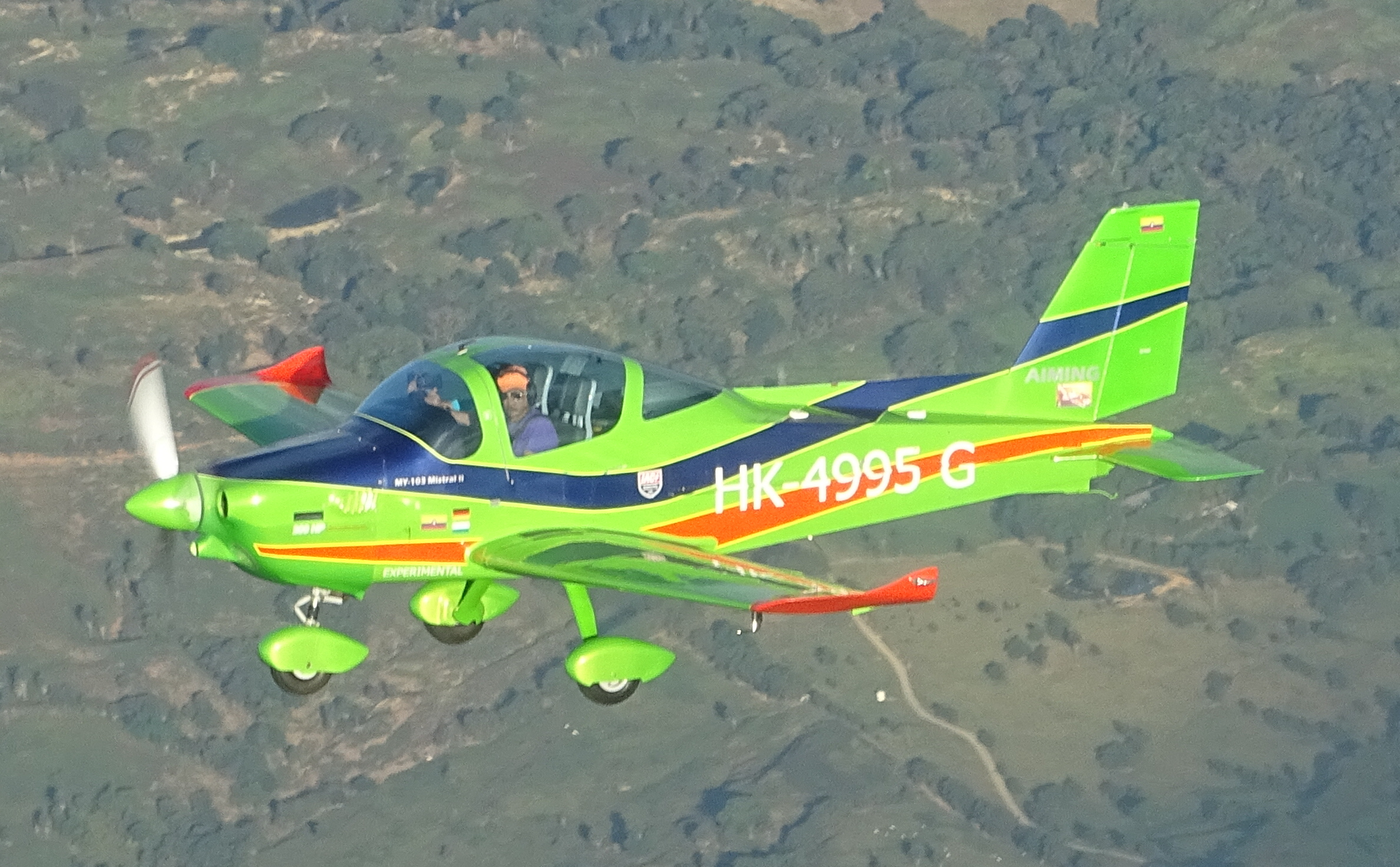 This is a Mylius Flugzeuge GmbH MY-103-200, Mistral II aerobatic trainer aircraft developed in Germany.